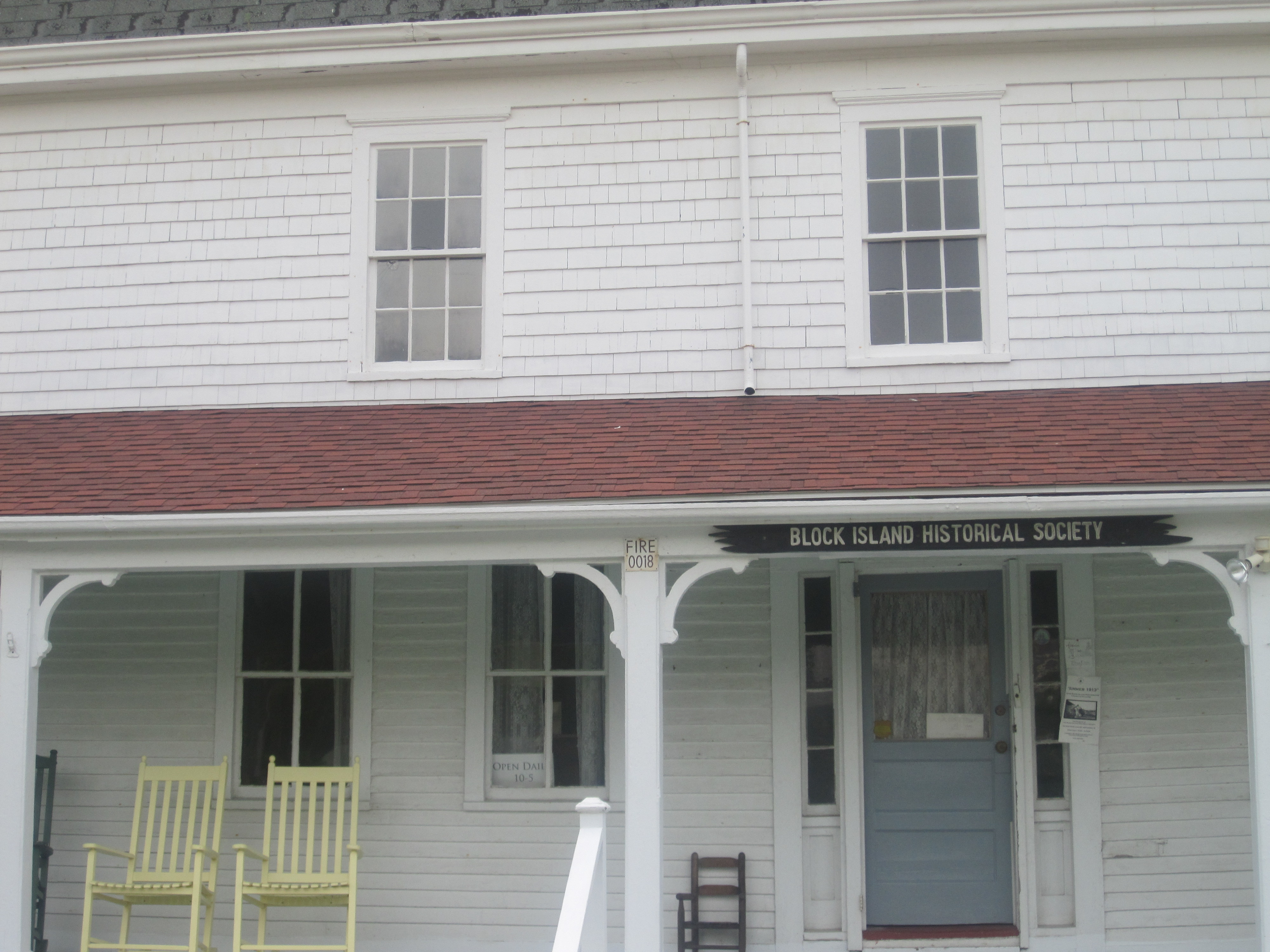 Block Island Historical Society building — in New Shoreham, on Block Island, Rhode Island.